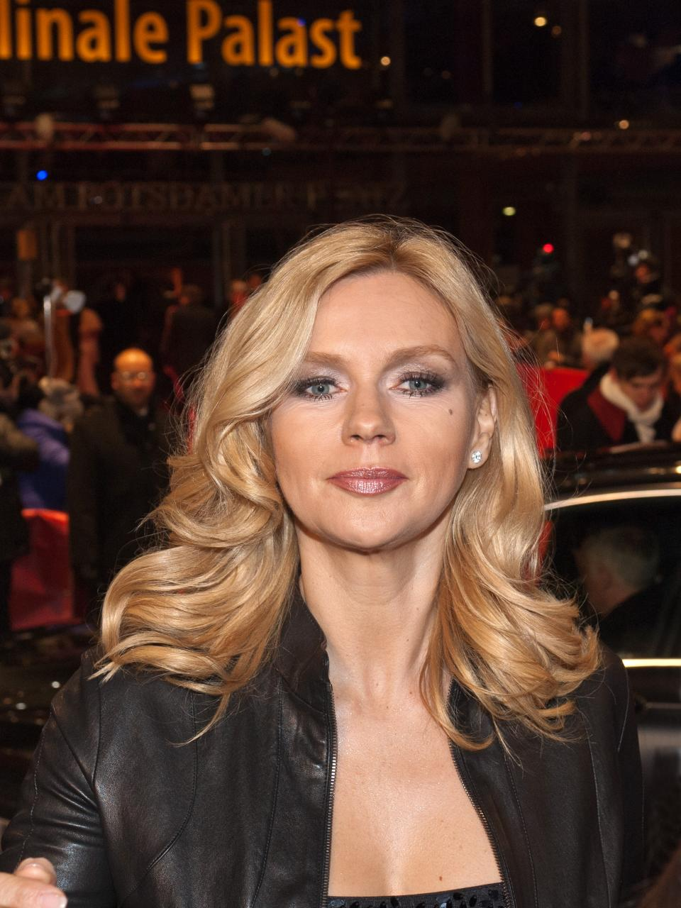 German actress Veronica Ferres, Opening of the 62nd Berlin International Film Festival